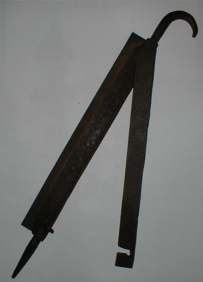 Bukfel, a locksmith tool